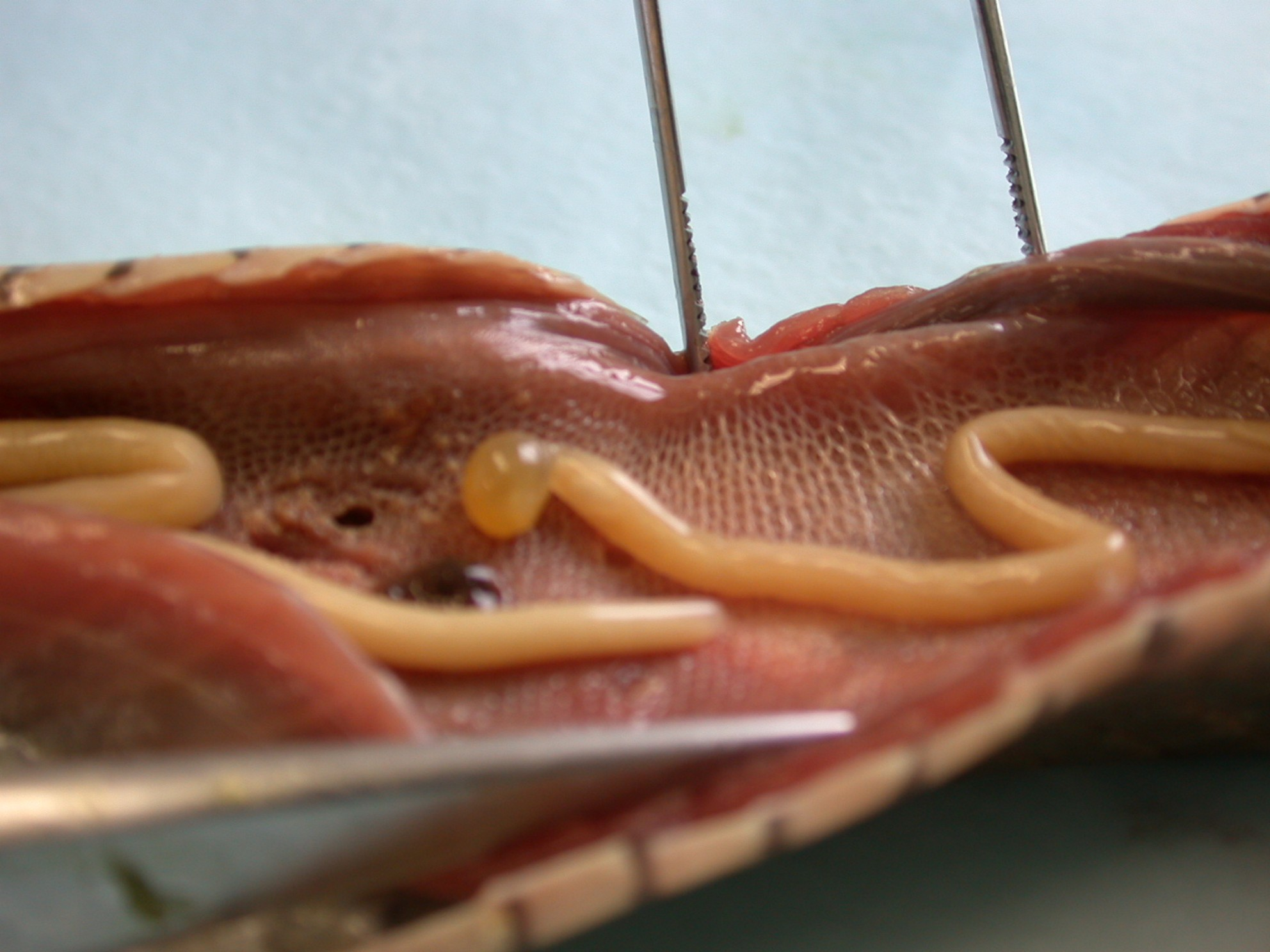 The tongue worm Porocephalus crotali inside a spotted desert racer snake Platyceps karelini. Contents of the journal are CC-BY-4.0 per [1]